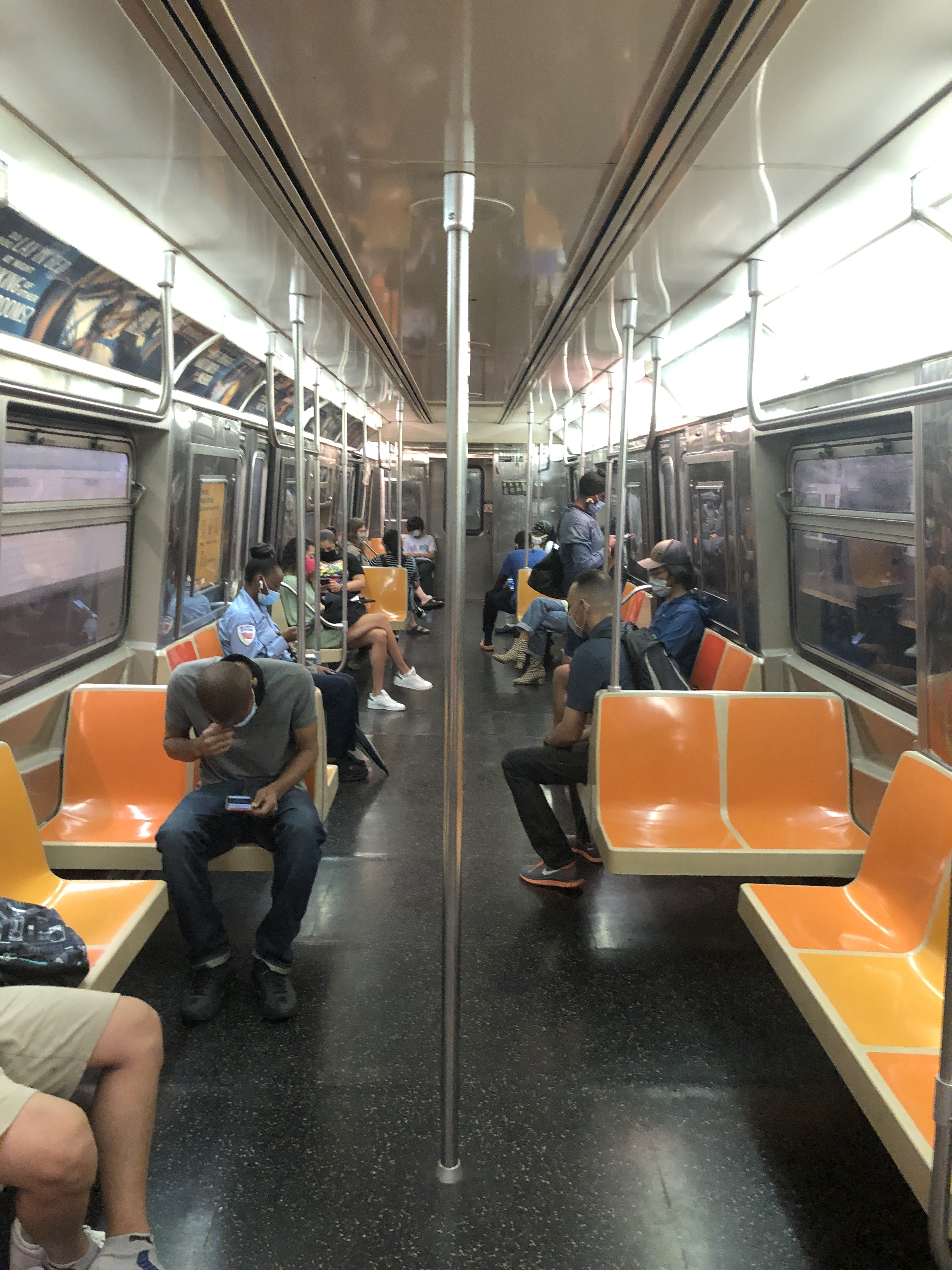 People in a Church Avenue-bound G train with face masks to practice social distancing